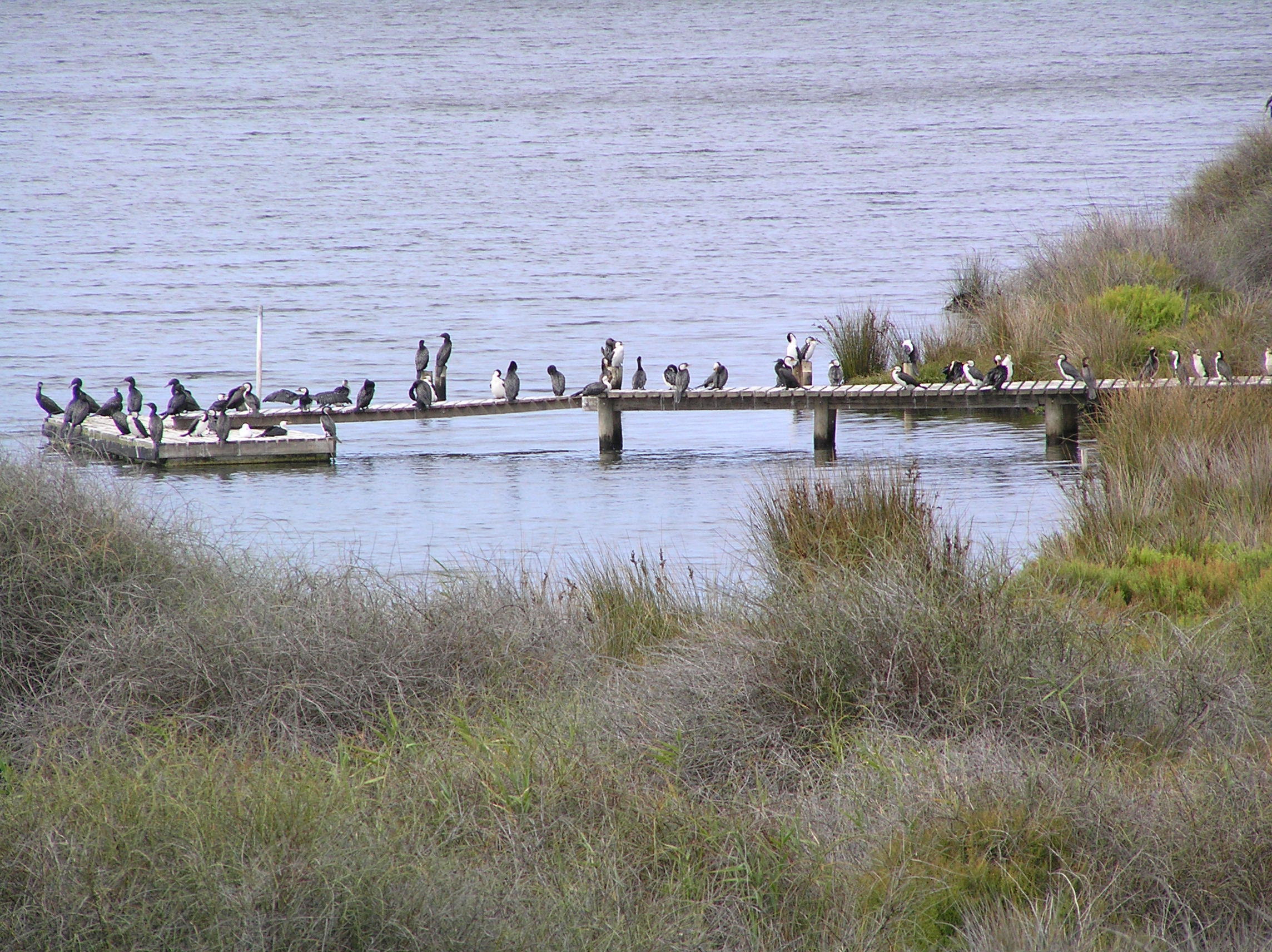 Little Black Cormorants Phalacrocorax sulcirostris and Little Pied Cormorants Microcarbo melanoleucos roosting at Tait Point, Lake Connewarre, Victoria, Australia.